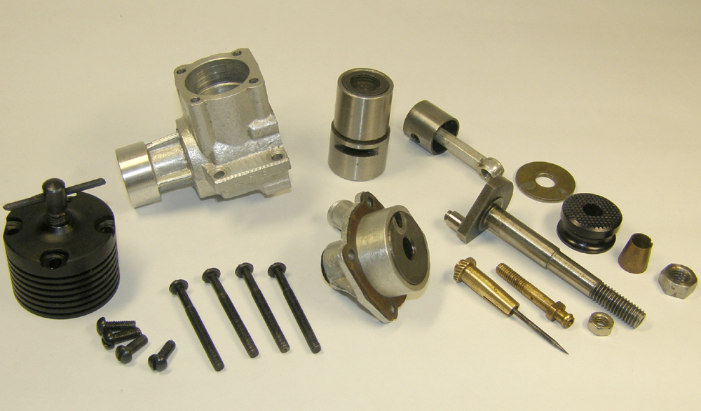 USSR model engine RYTM